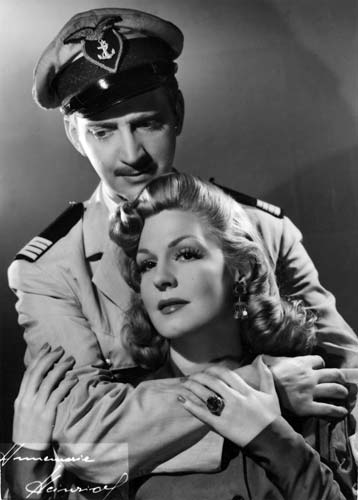 Zully Moreno with Ernesto Bianco in: La dama del mar, 1954. see: Argentine films of 1954. Film still / Promo pic